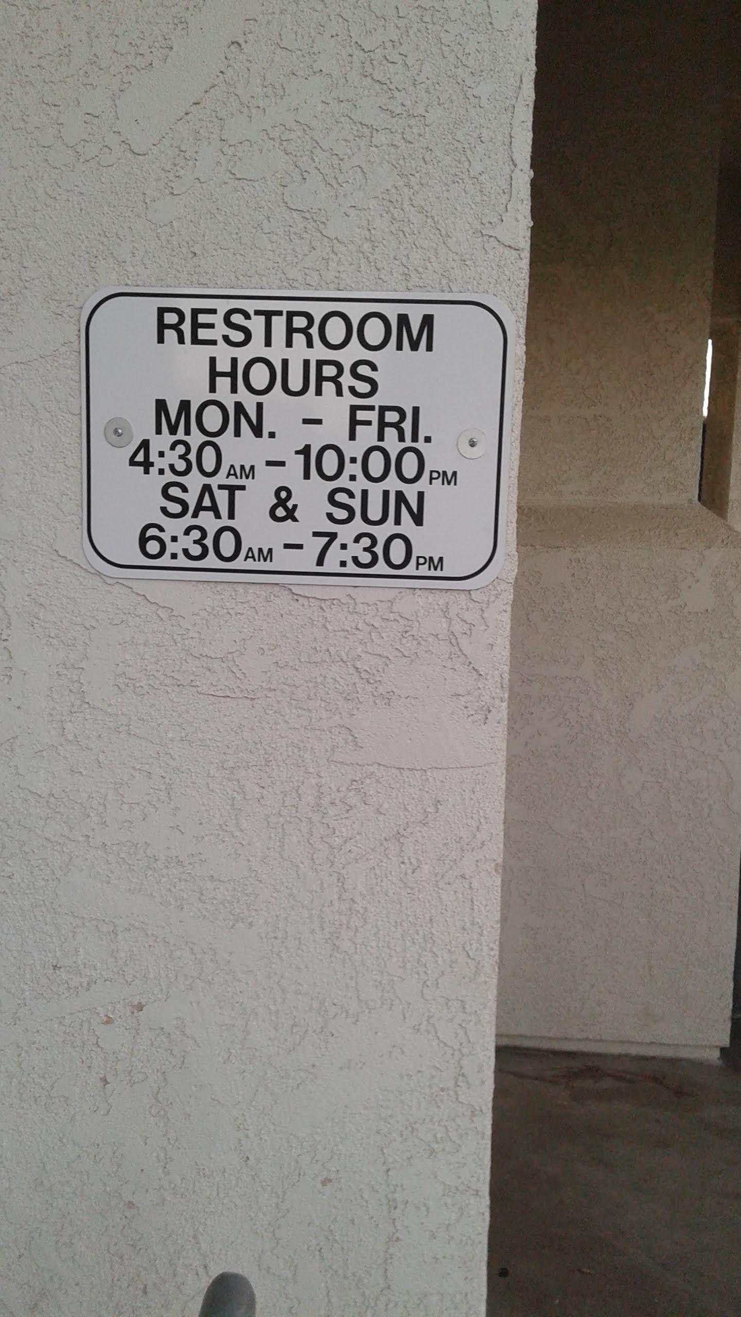 Via Princessa metrolink station bathroom hours